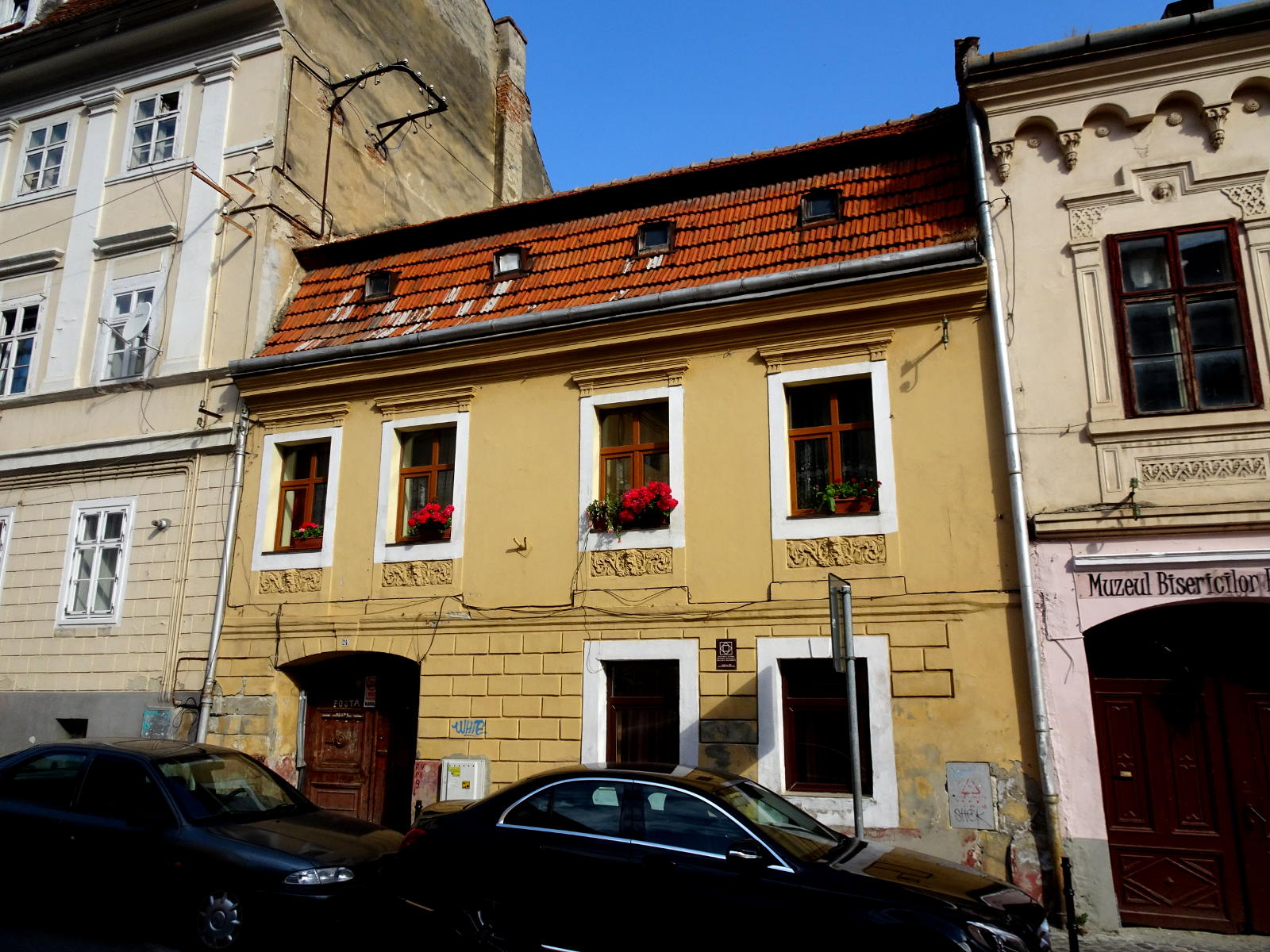 Poarta Schei street in Brasov, house number 24